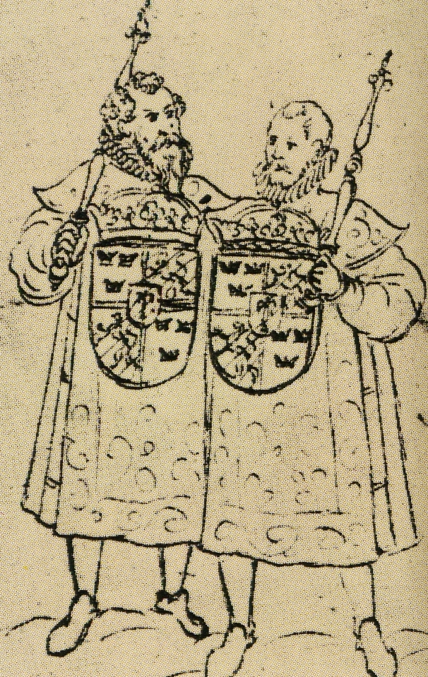 Two Swedish heralds in the funeral procession of King Johann III in 1594.